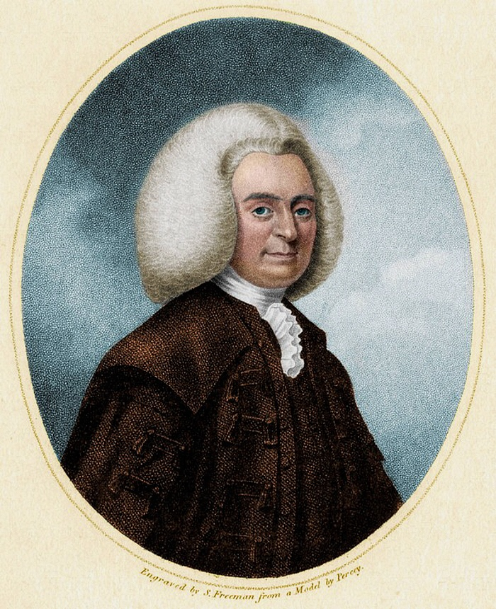 Mathematician Colin Maclaurin